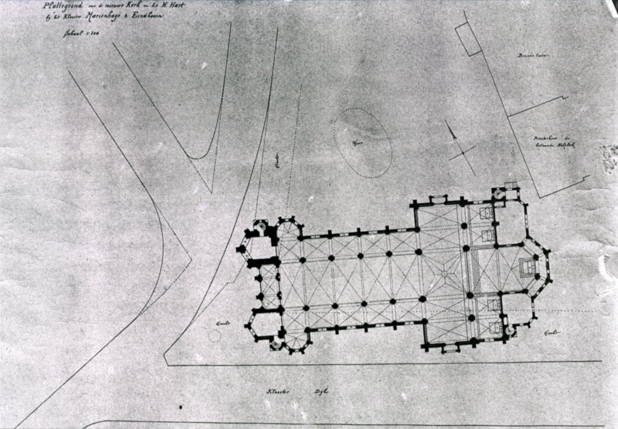 Blueprint of design Heilig Hartkerk, Eindhoven, Netherlands (modified by me)